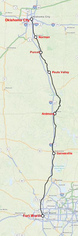 Amtrak Heartland Flyer Legend: ━━━ Primary lines ━━━ Secondary lines ━━━ Tertiary lines